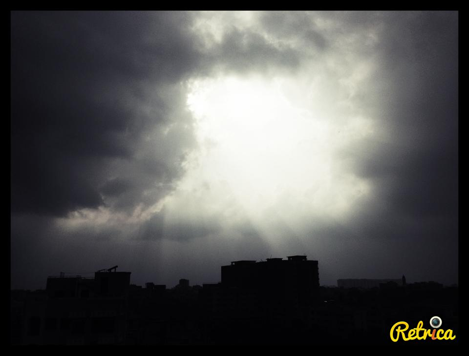 rain cloud